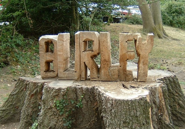 Burley in wood This sign is carved out of one piece of wood and is located in the car park behind the Queens Head at Burley